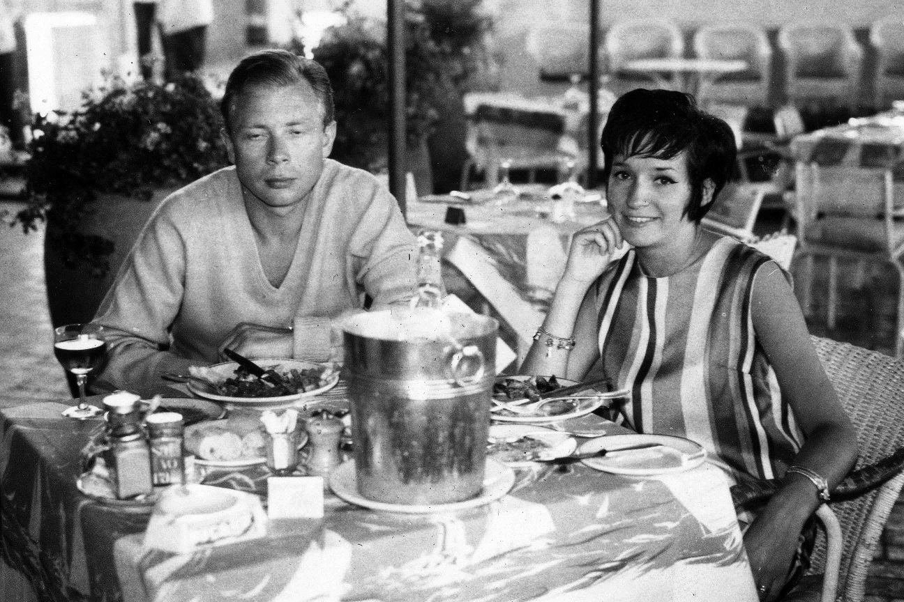 Terry loved life and more to the point his friends like wonderful Buster Edwards. It was Busters death that had a profound effect on Terry. It was within two months of Buster killing himself that Terry jumped from the top of his building and died in the road. He knew he was a thief and if he could have played a different hand he would have never got into crime. He always wanted to write a book. His favourite saying was "Enjoy yourself, it's later than you thinkǃ"